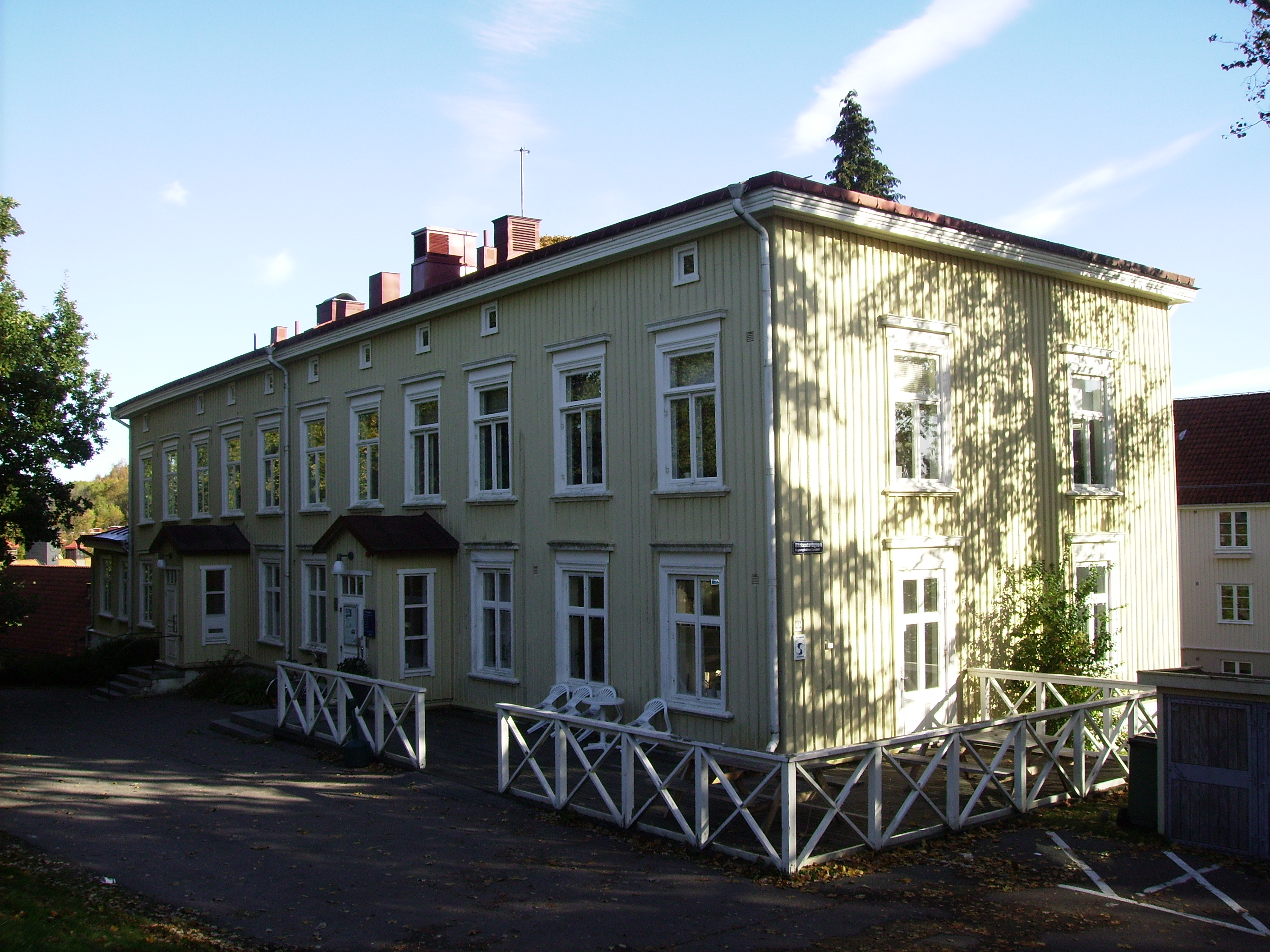 Picture of Bagaregården (mansion) in Göteborg